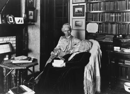 Elizabeth Blackwell and her daughter Katharine "Kitty" Barry Blackwell at home in the study